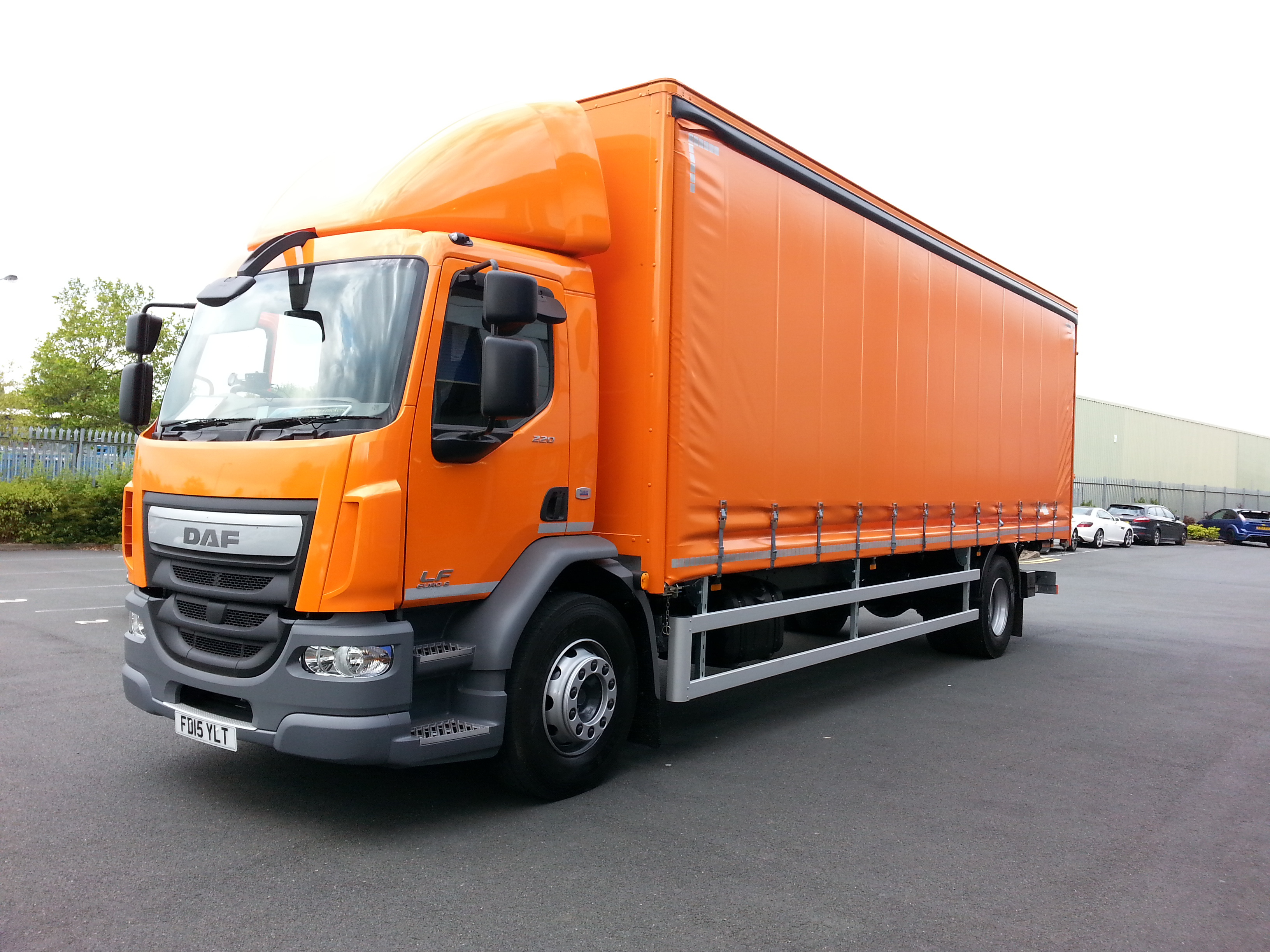 On Thursday 16th July, I was asked to load some pallets for despatching onto our courier's lorry. Upon going outside, it was discovered that our driver from Palletforce had been given a brand new truck, which was on its first day of collections. Sadly i wasnt the first person to have the privilage to load the truck, however i did get a photo of the new DAF before it left with our goods.